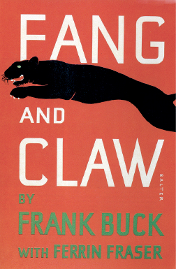 Cover by George Salter for the book "Fang and Claw" by Frank Buck published in 1935